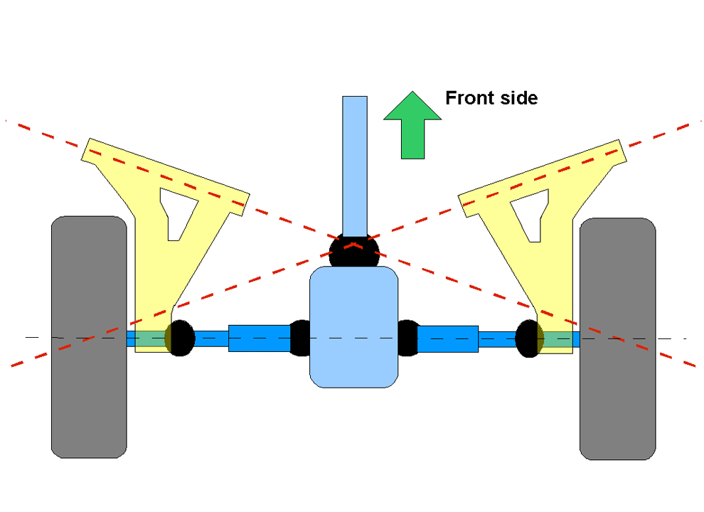 A schematic view of a Diagonal swing axle suspension.